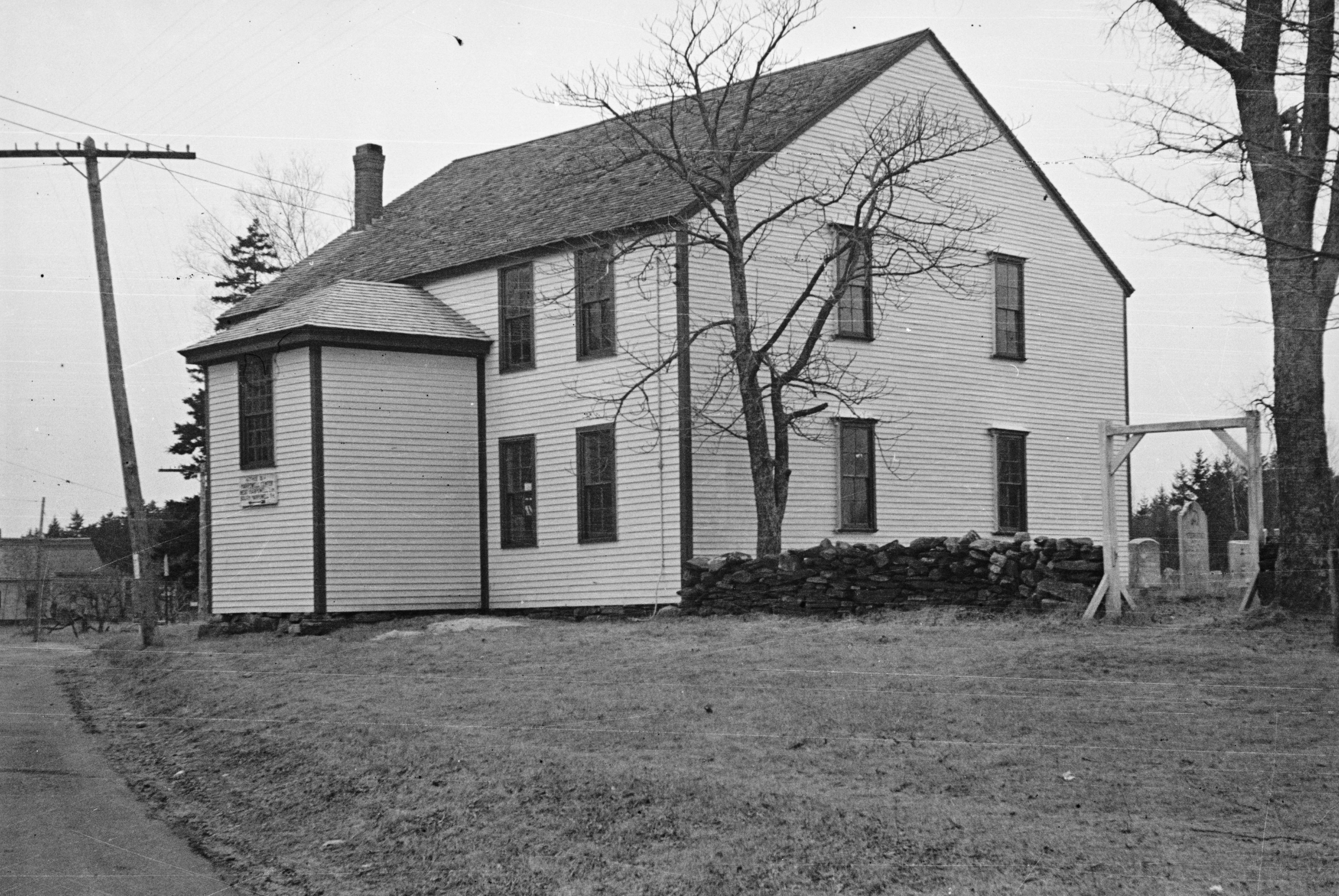 Front of the Harpswell Meetinghouse, located along State Route 123 at Harpswell Center in Harpswell, Maine, United States. Built in 1757, it is a National Historic Landmark.